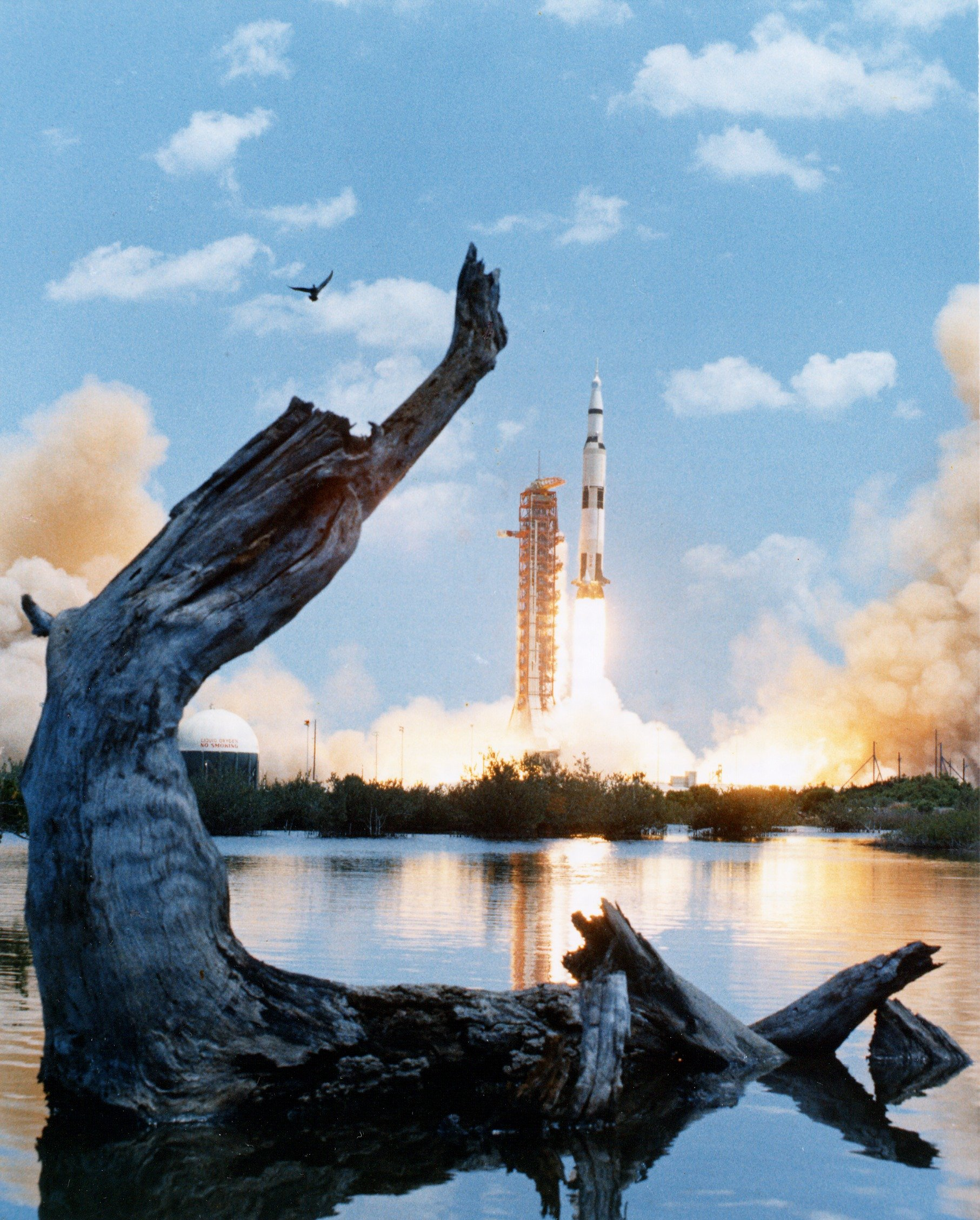 Apollo 16 launch.